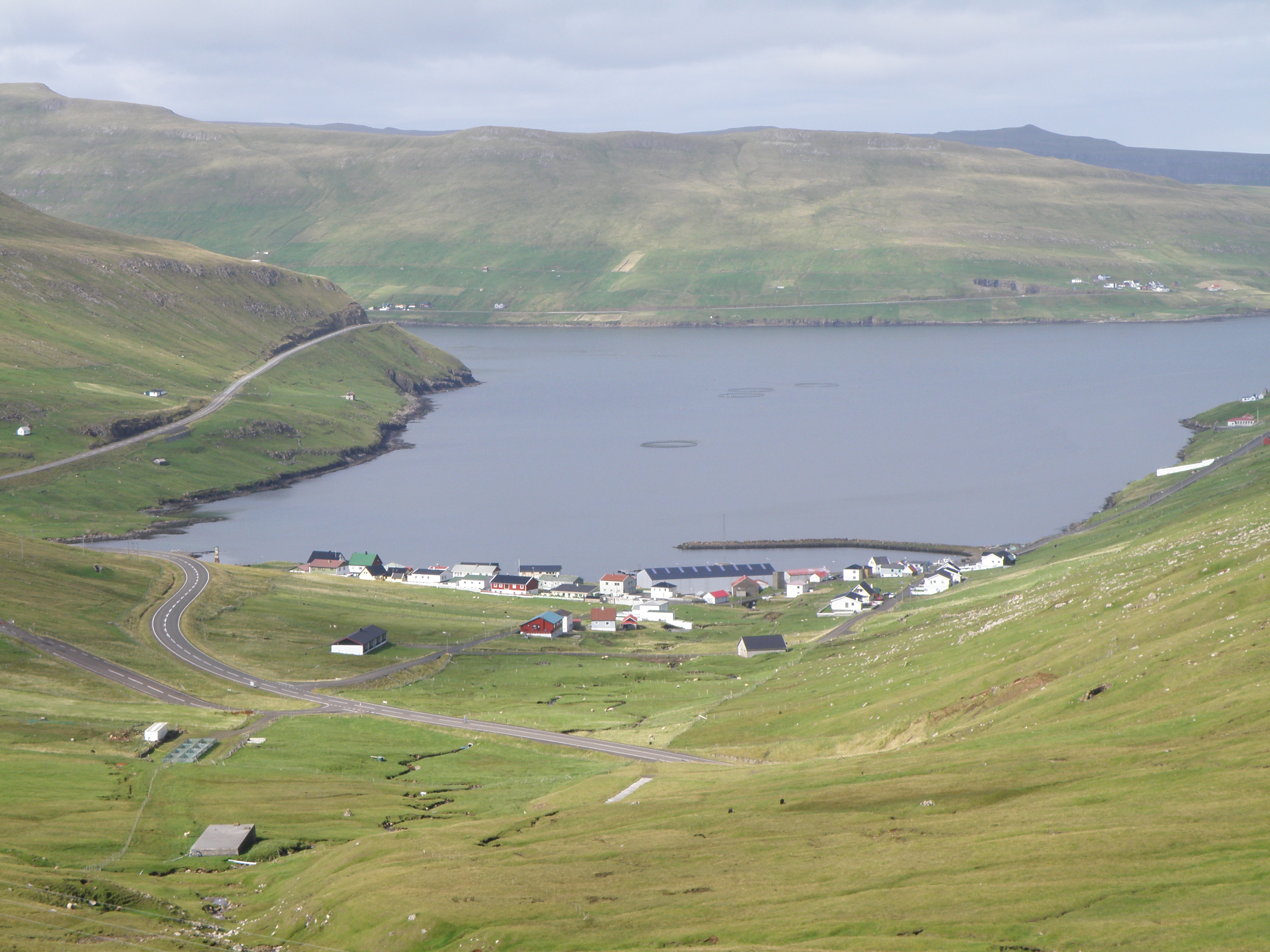 Lopra is a small village on Suðuroy, Faroe Islands. The population is around 100. The village is located around the fjord Lopransfjørður. West of the village there is a popular place on the west coast which is called Lopranseiði. One can enjoy the spectacular view from there towards south to the 470 meter high sea cliff Beinisvørð. The top of Beinisvørð is visible from the village. This is the view towards north from the old road to Sumba. There are salmon farm rings on the fjord. A part of the village Vágur is visible to the left, Nes is to the right across the fjord. The fjords are called Lopransfjørður and Vágsfjørður.